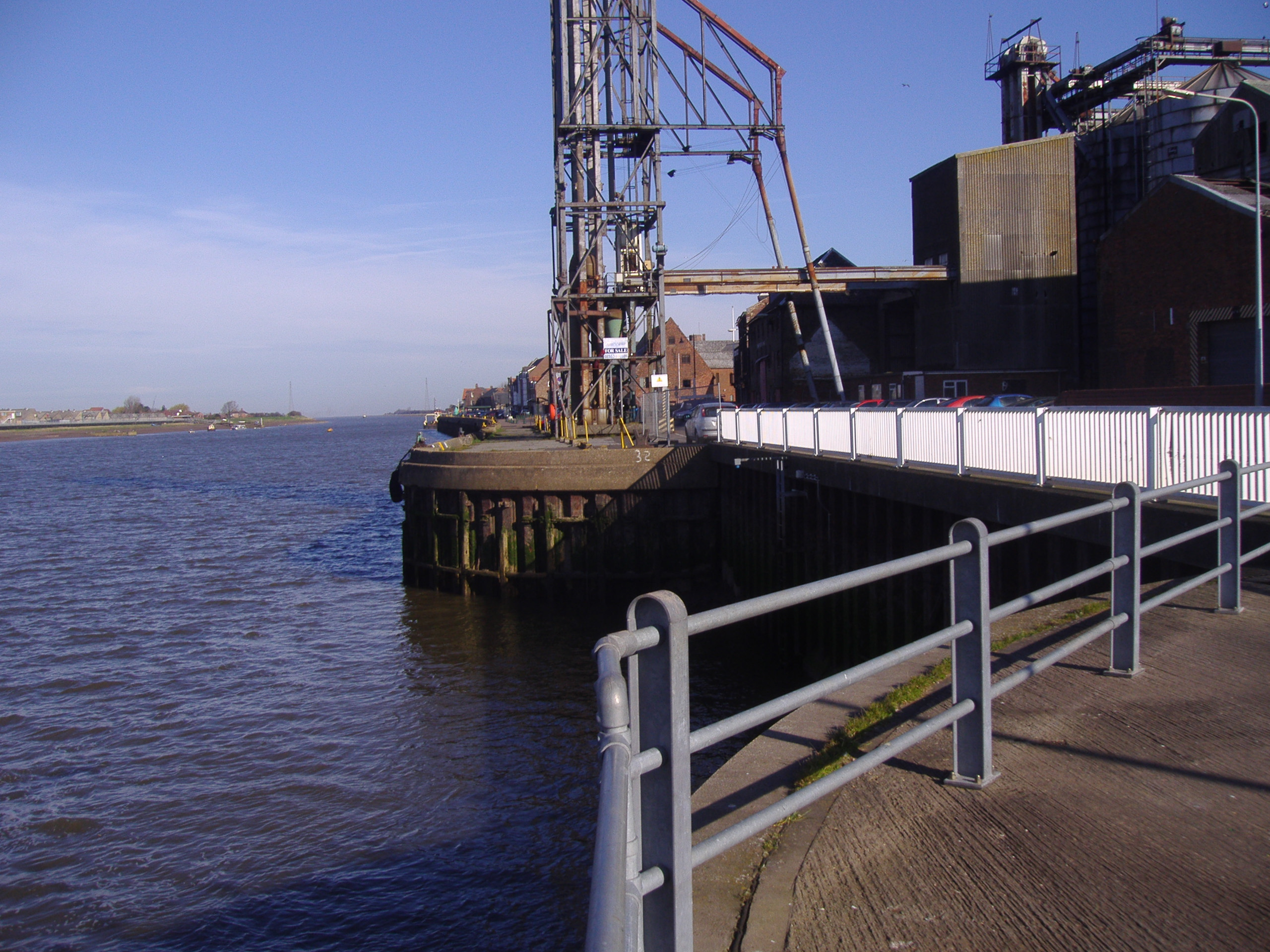 A Digital Photograph of the site of the Mouth of the River Gaywood in Kings Lynn 11/3/2007